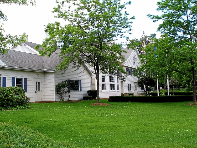 Town Hall, Wolcott, Connecticut.